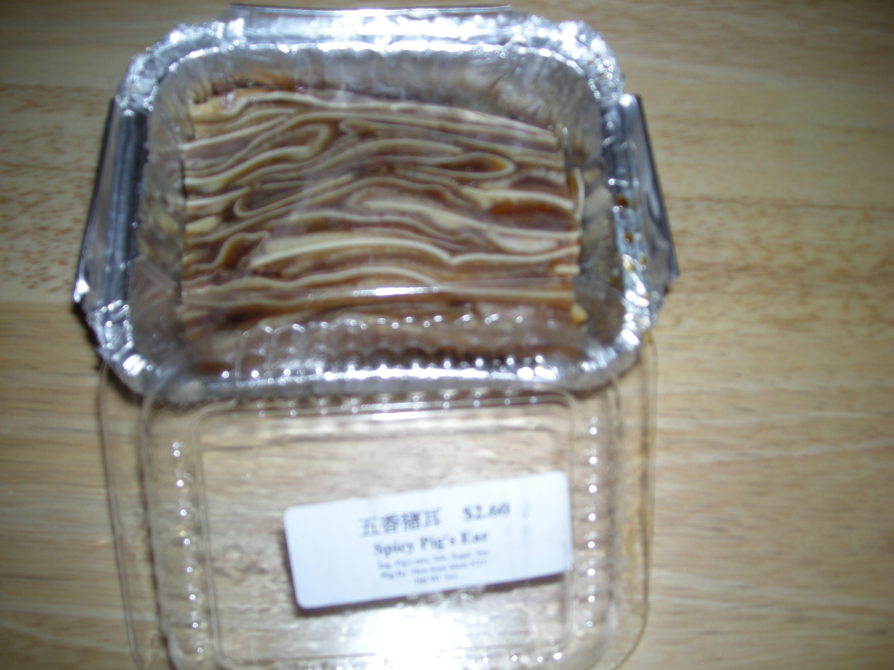 Pig's ear, prepared pork product in Chinese cuisine.